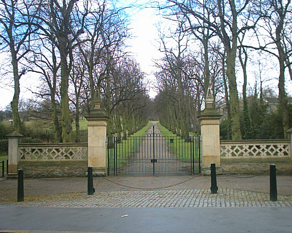 Norfolk Park Road entrance of Norfolk Park, Sheffield.